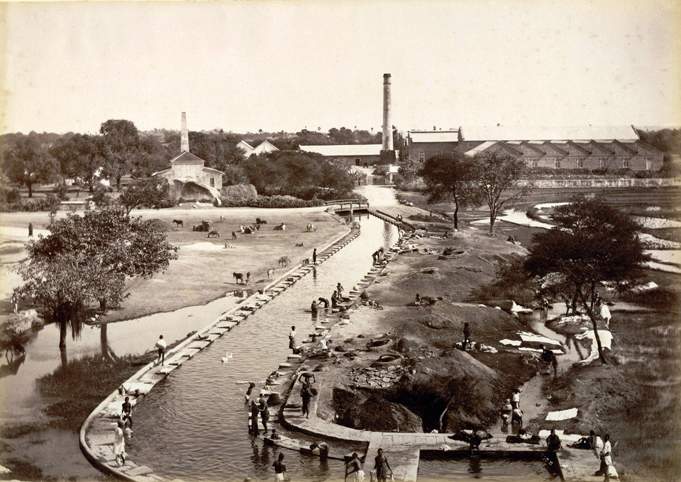 Until 1874 there were no modern industries in Hyderabad. When railway was introduced, four modern factories were established south and east of the Hussain Sagar lake. These industrial units became the centre of new settlements. This is a view of the mills and the nearby canal connected to Hussain Sagar lake.